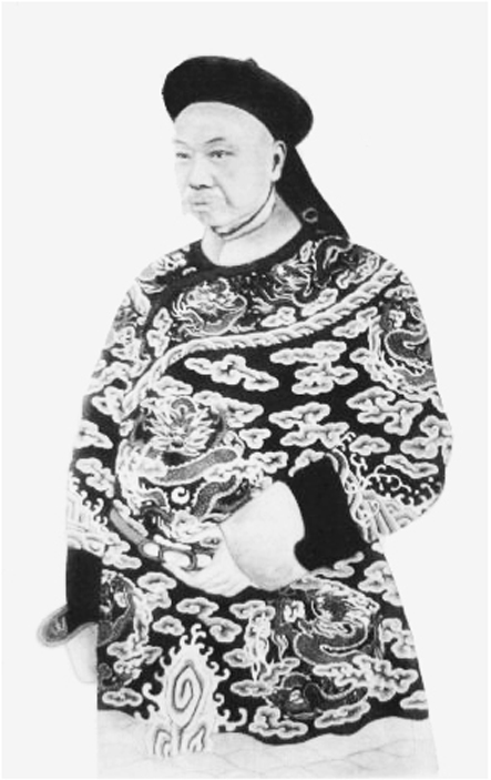 松寿，清朝官员